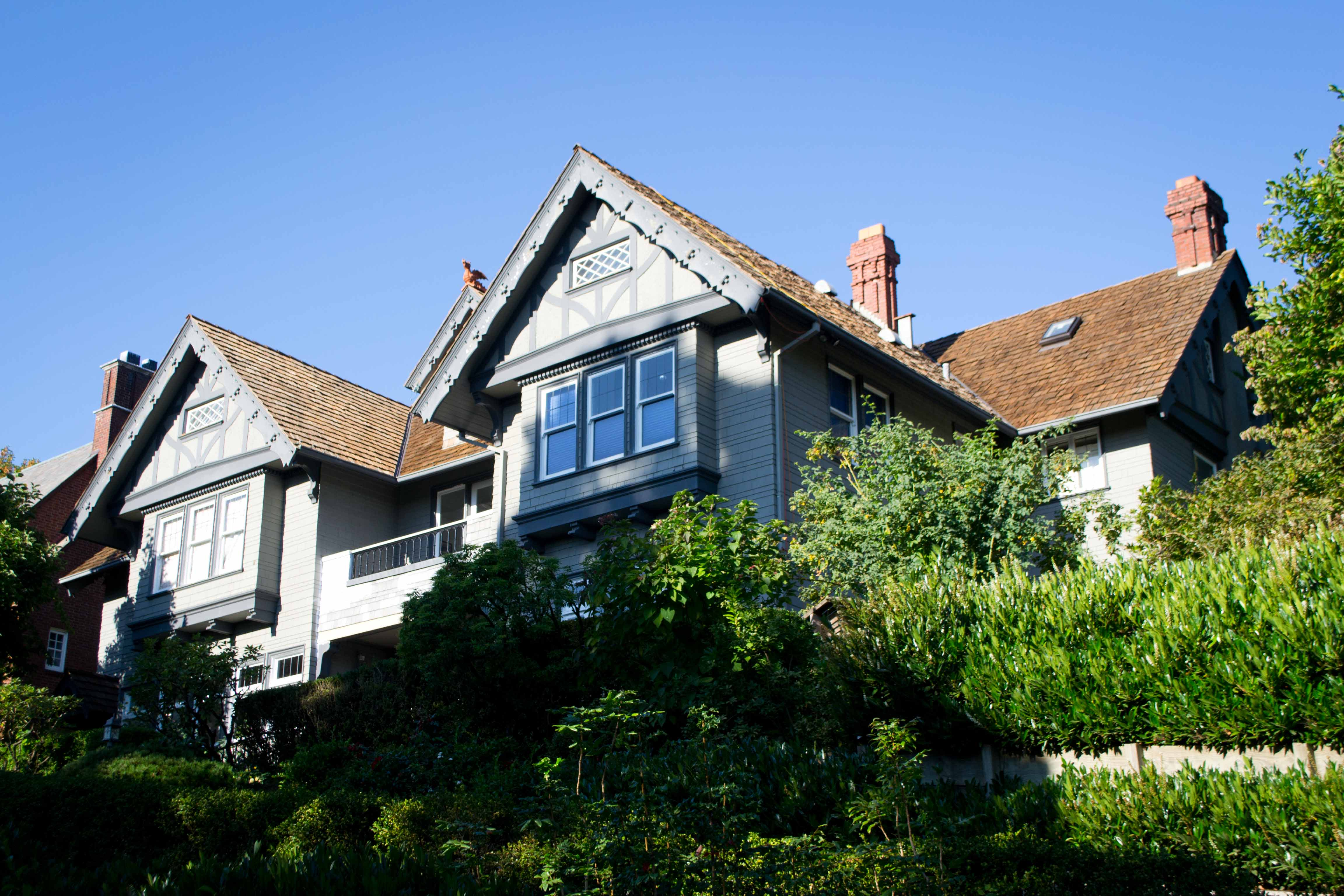 National Register of Historic Places listing in Portland, Oregon